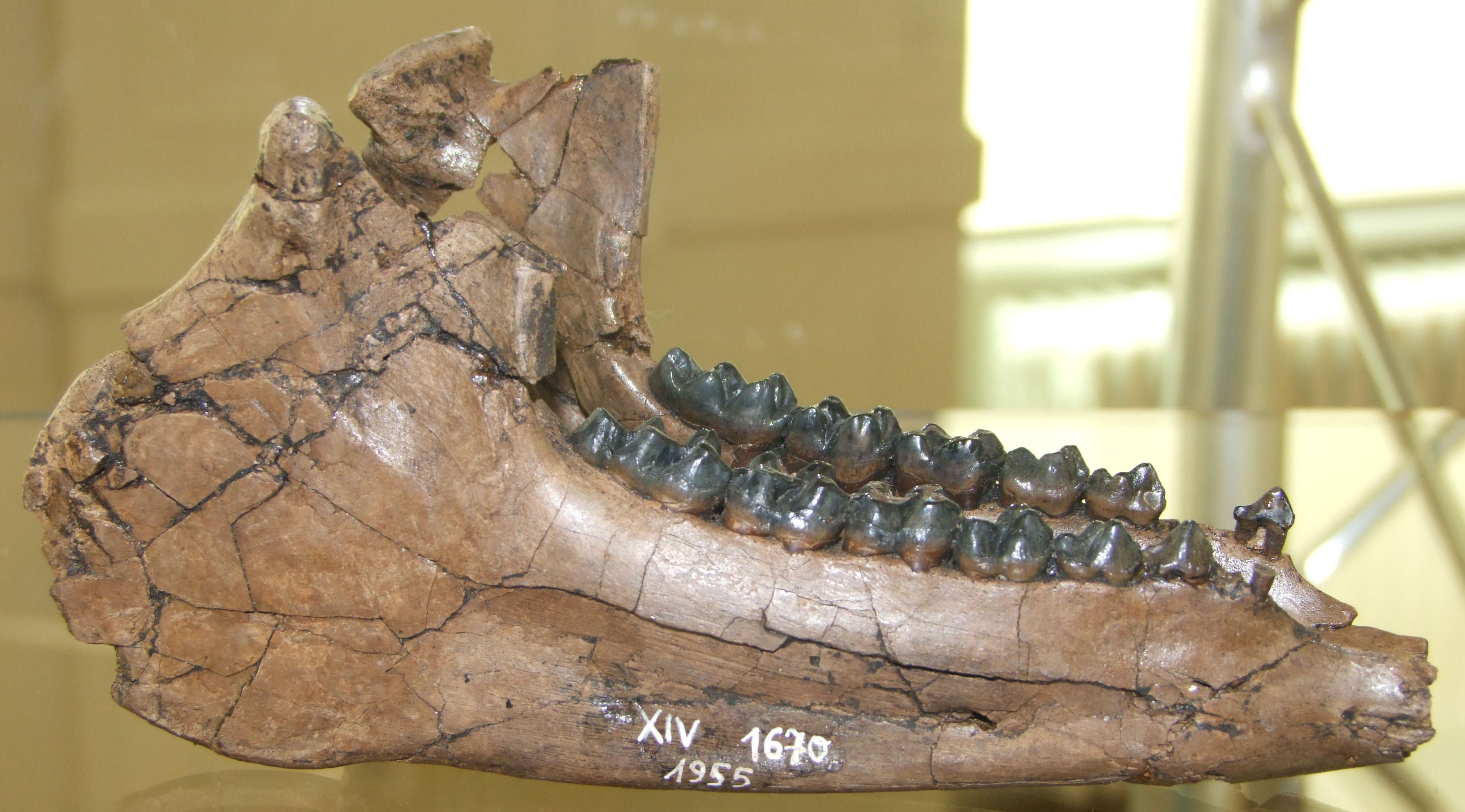 Mandible of Propalaeotherium hassiacum, pictured in the exhibition: Graining ground: Horse hunting crocodiles and giant birds from 6th of march to 29th of may 2015 in Halle/Saale